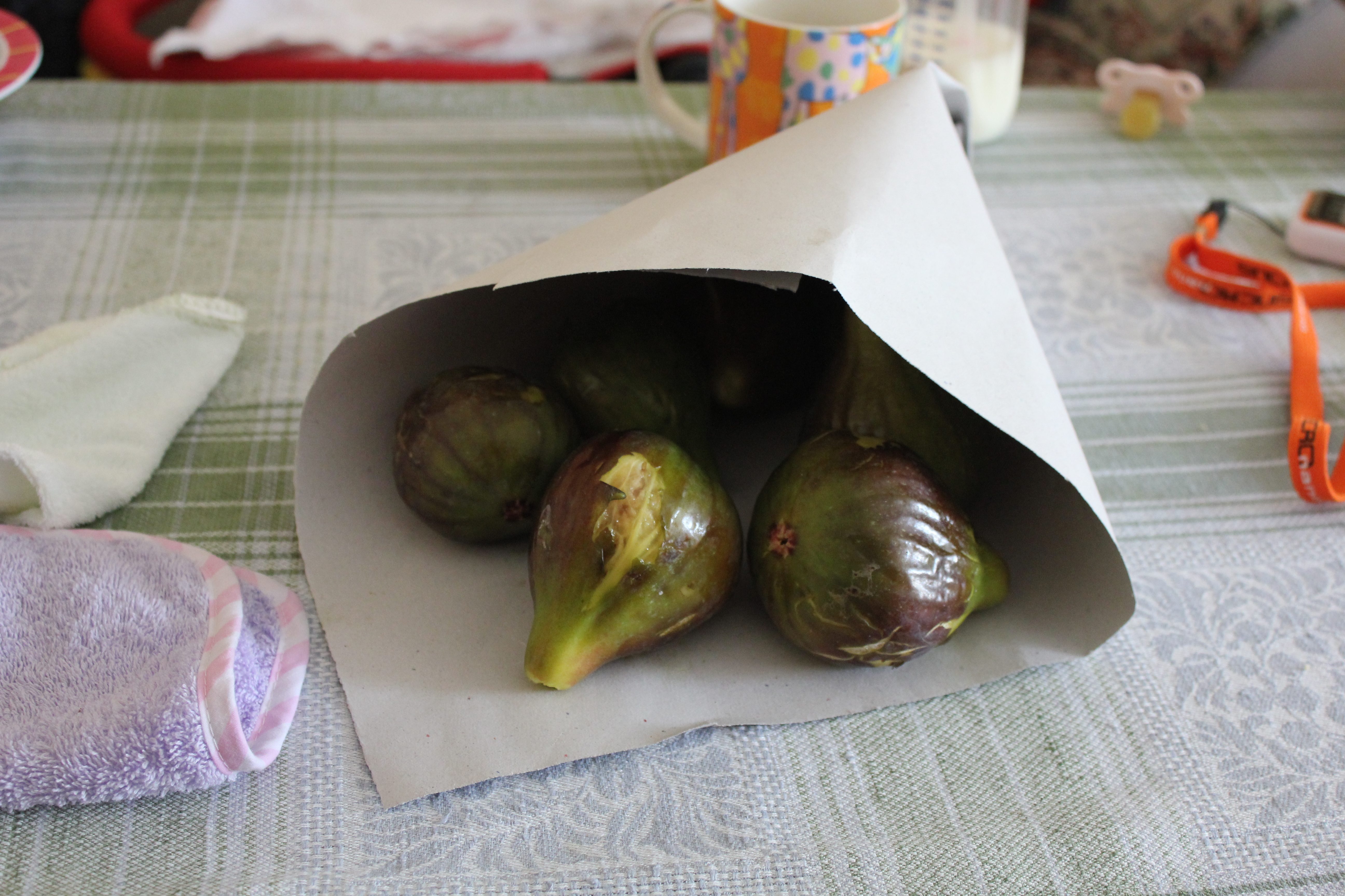 Brevas, Spanish fuit